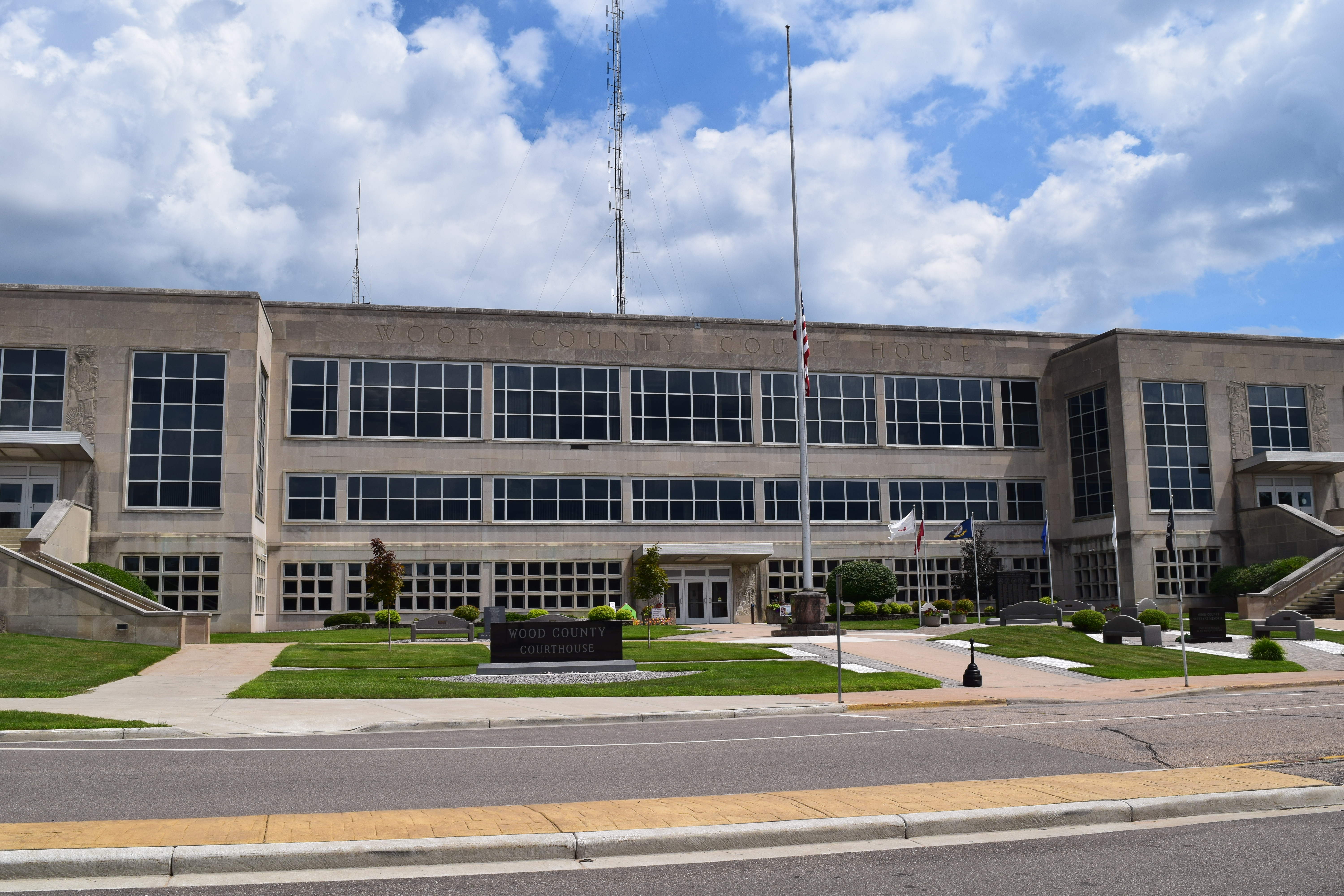 The Wood County Courthouse in Wisconsin Rapids, Woood County, Wisconsin.